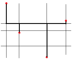 Minimum single-trunk Steiner tree